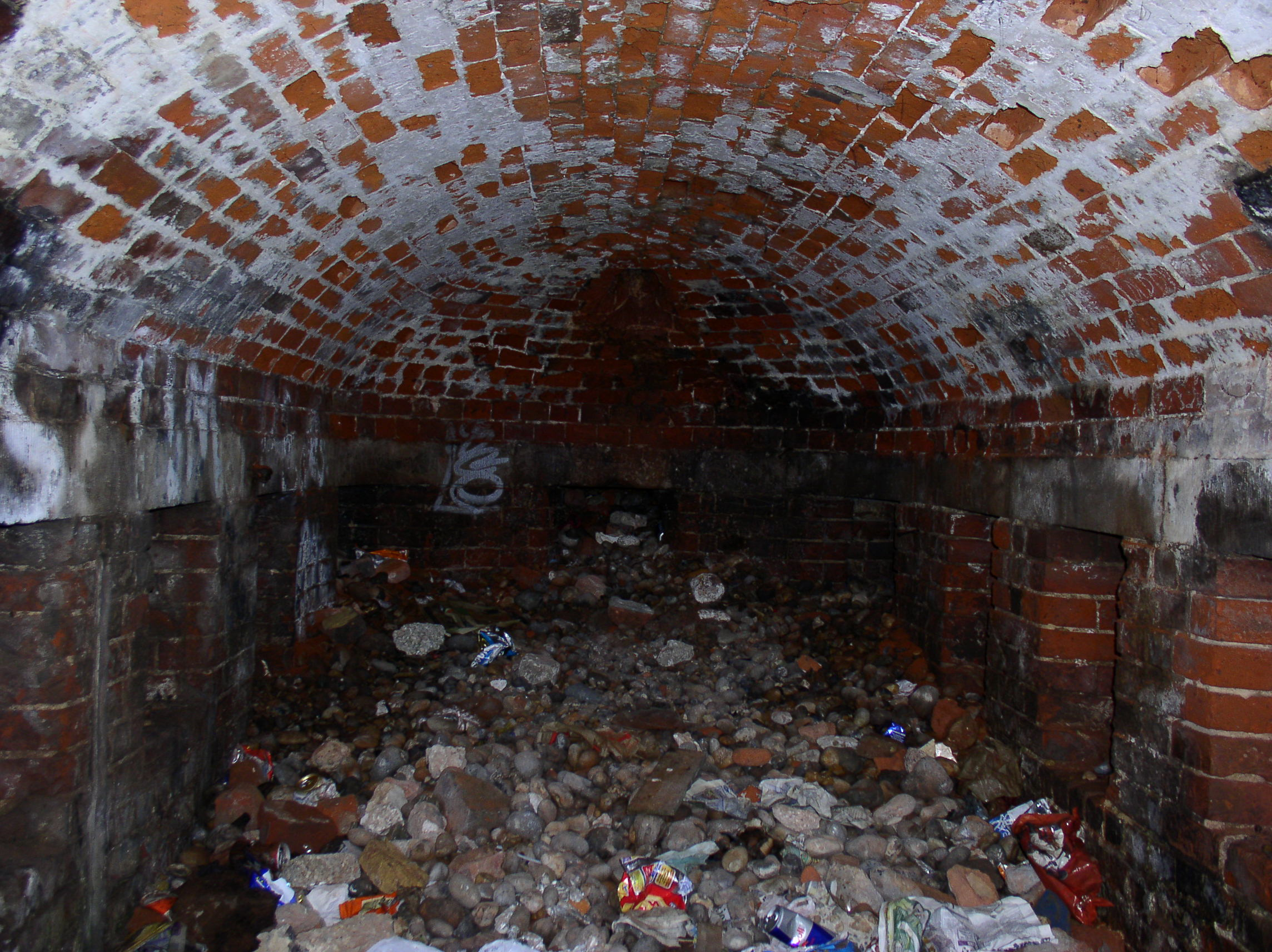 Inside a caponnier at Shoreham Fort.